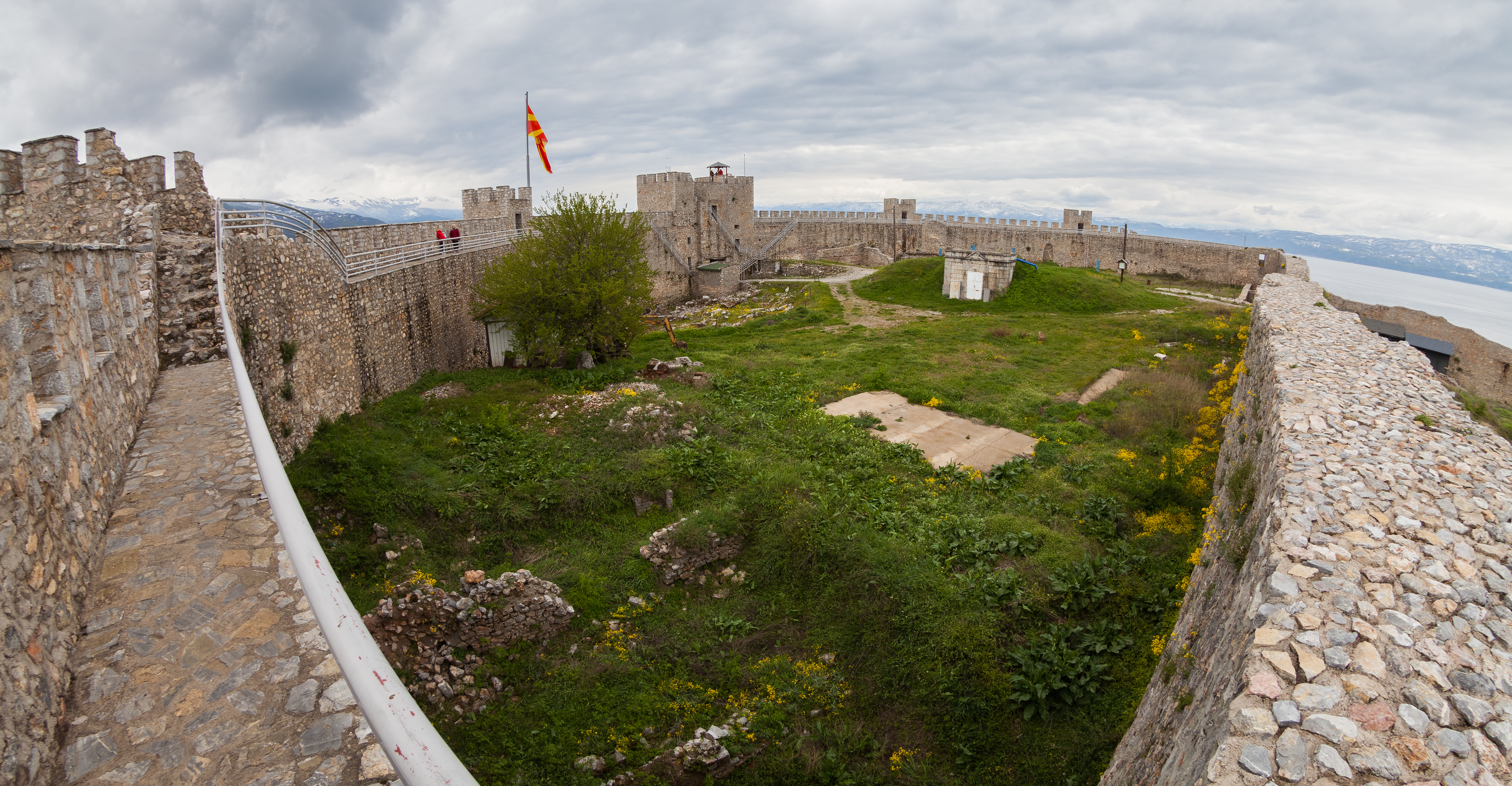 Samuil's Fortress, Ohrid, Macedonia